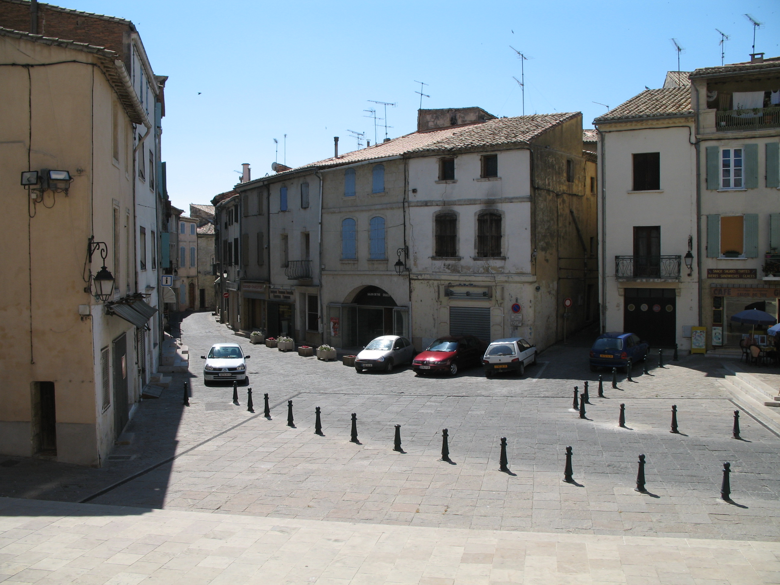 Saint-Gilles-du-Gard (département du Gard, France): Place de l'Abbatiale